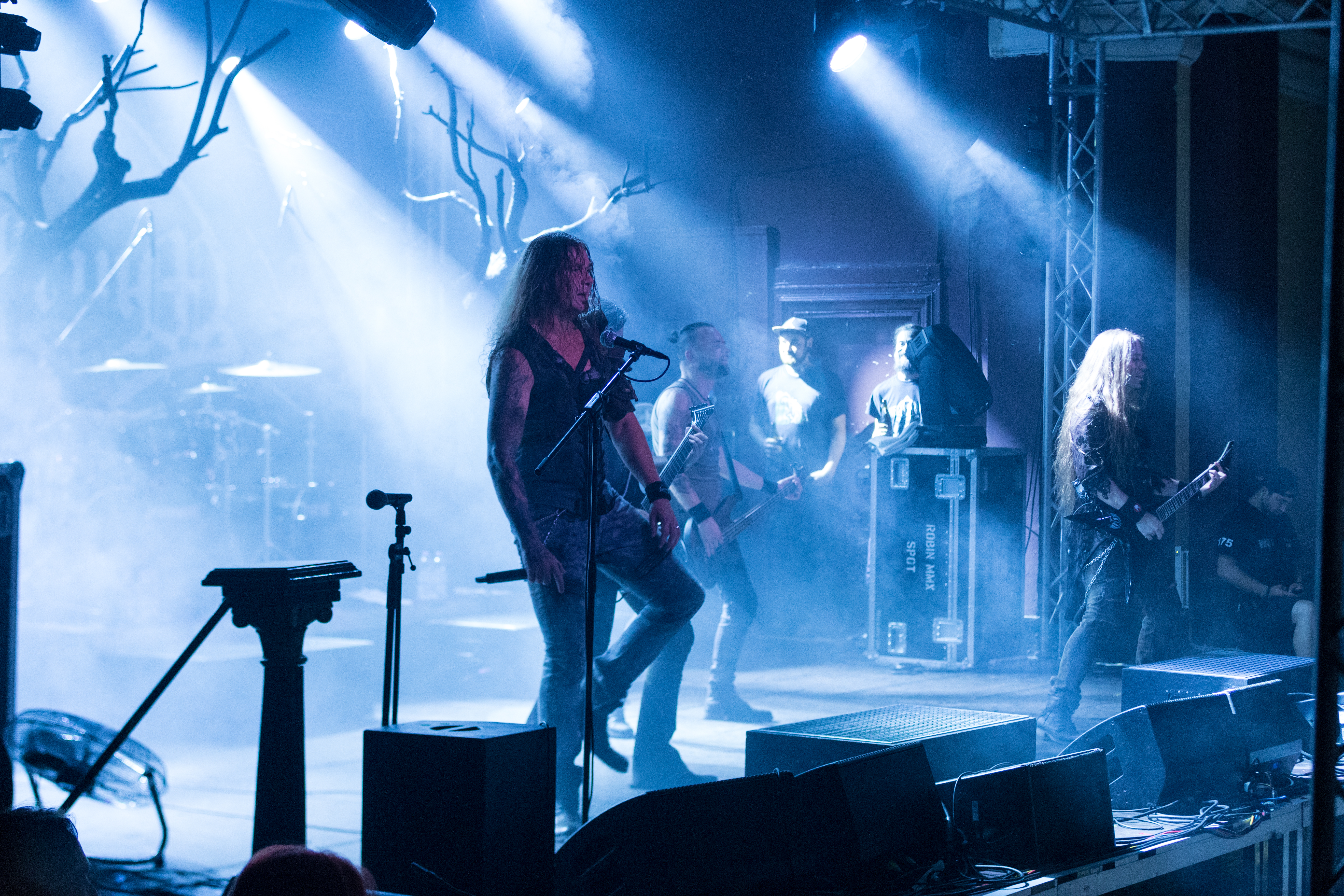 The German pagan metal band Equilibrium at the Wave-Gotik-Treffen 2017 in Leipzig/Germany (Venue Felsenkeller).